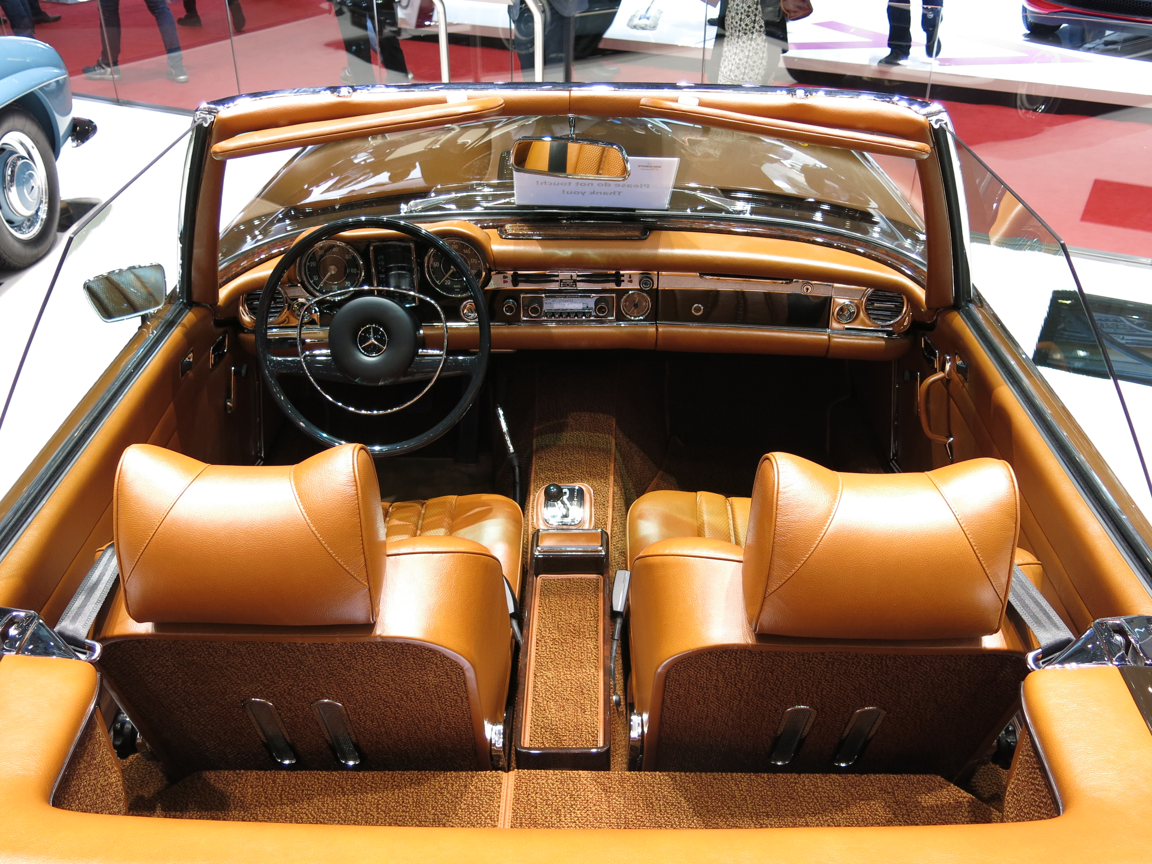 Geneva Motor Show 2015 (photo taken on the first press day)